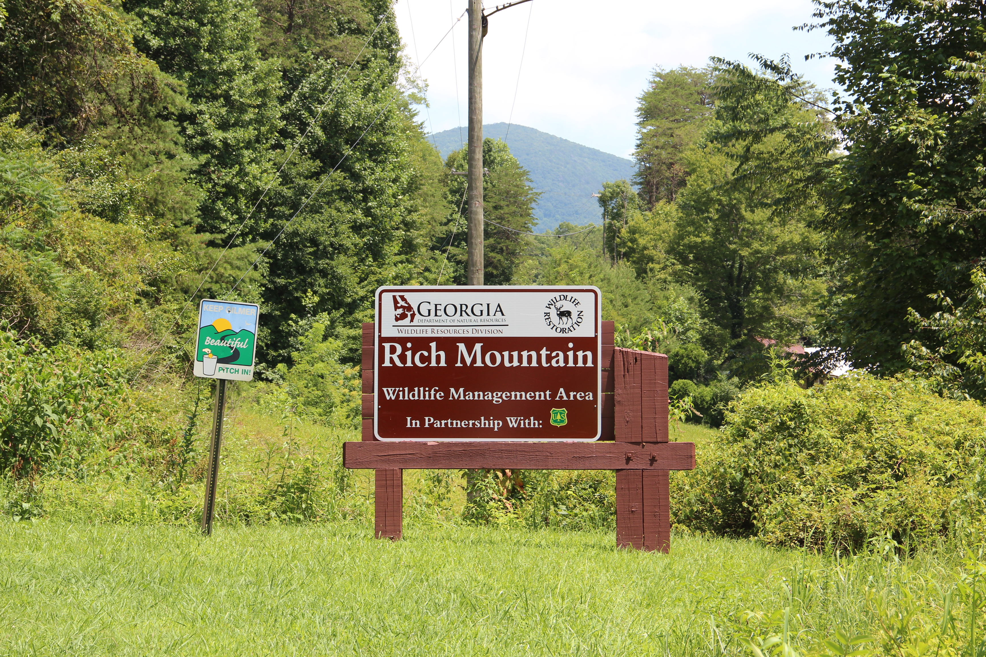 Rich Mountain Wilderness sign